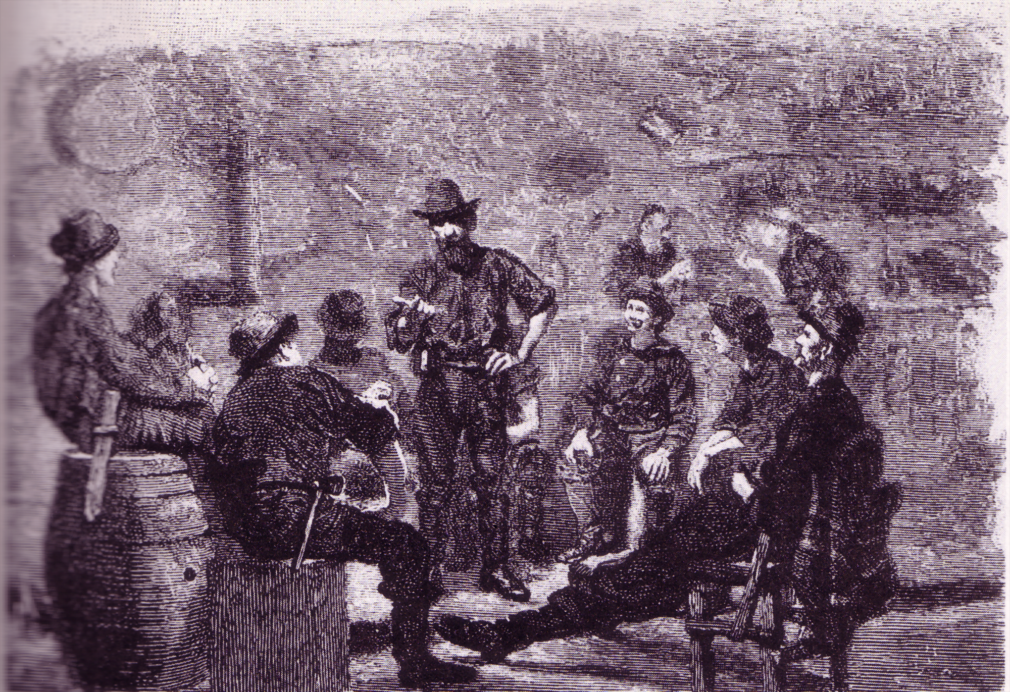 Pictures by Thomas Eakins